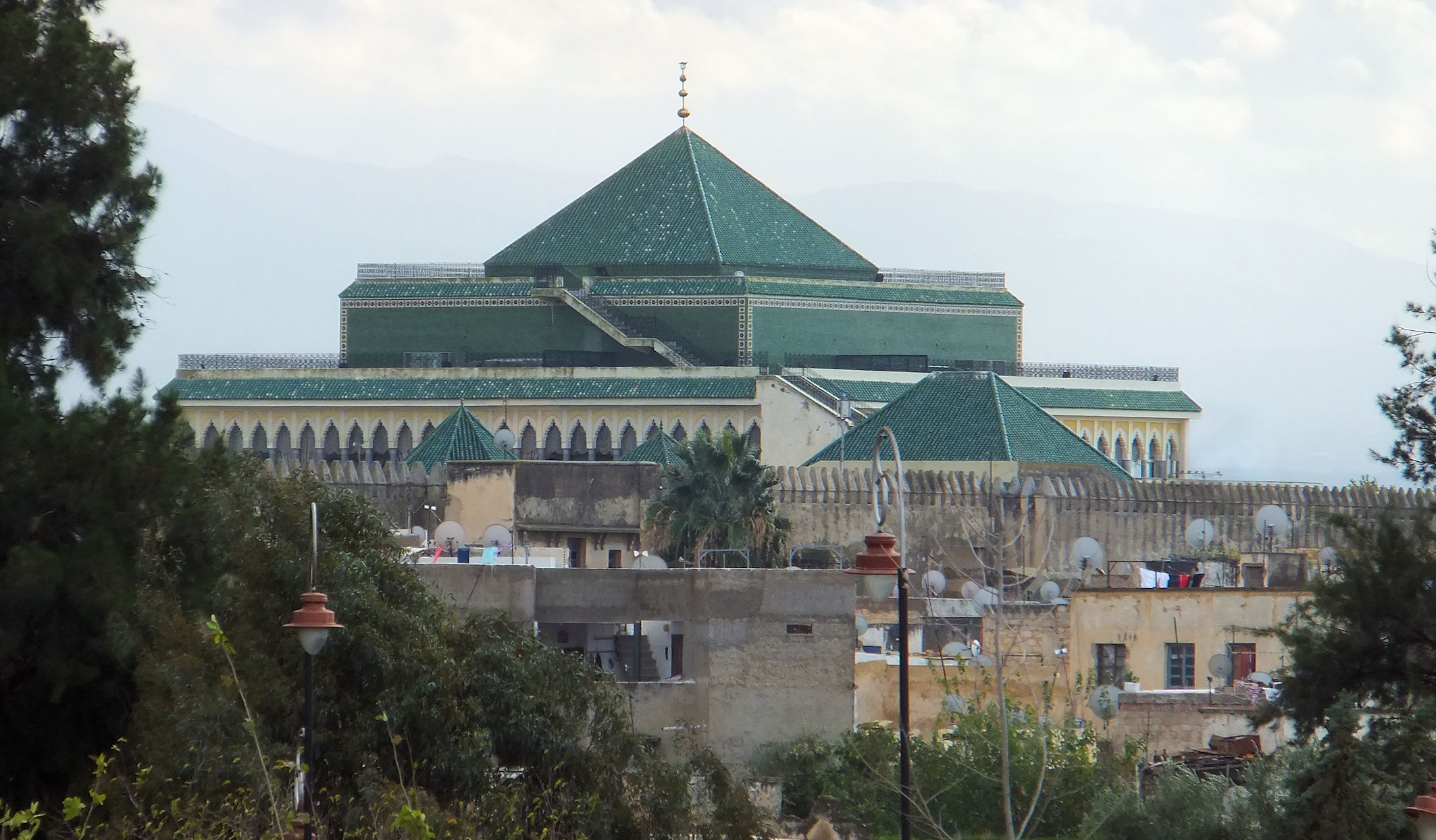 View from afar of the rooftops of the largest structures in the Royal Palace of Fes.